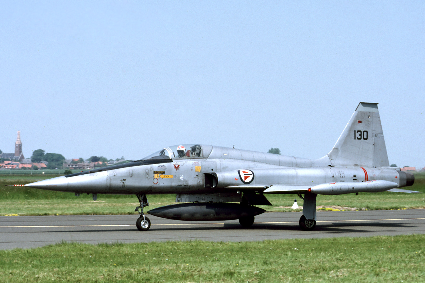 Tiger Meet Cambrai, June 1986. An amazing open day was held, with many tiger squadrons. Cambrai was a great base to visit.